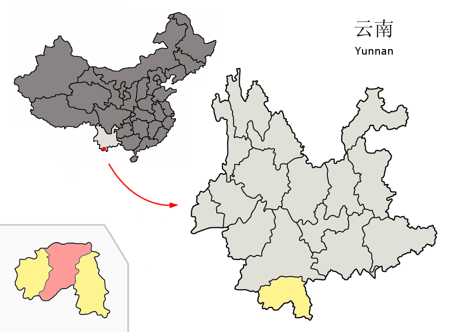 Location of Jinghong City (pink) and Xishuangbanna Prefecture (yellow) within Yunnan province of China Map drawn in september 2007 using various sources, mainly : Yunnan province administrative regions GIS data: 1:1M, County level, 1990 Yunnan Counties map from